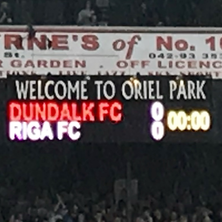 Oriel Park scoreboard